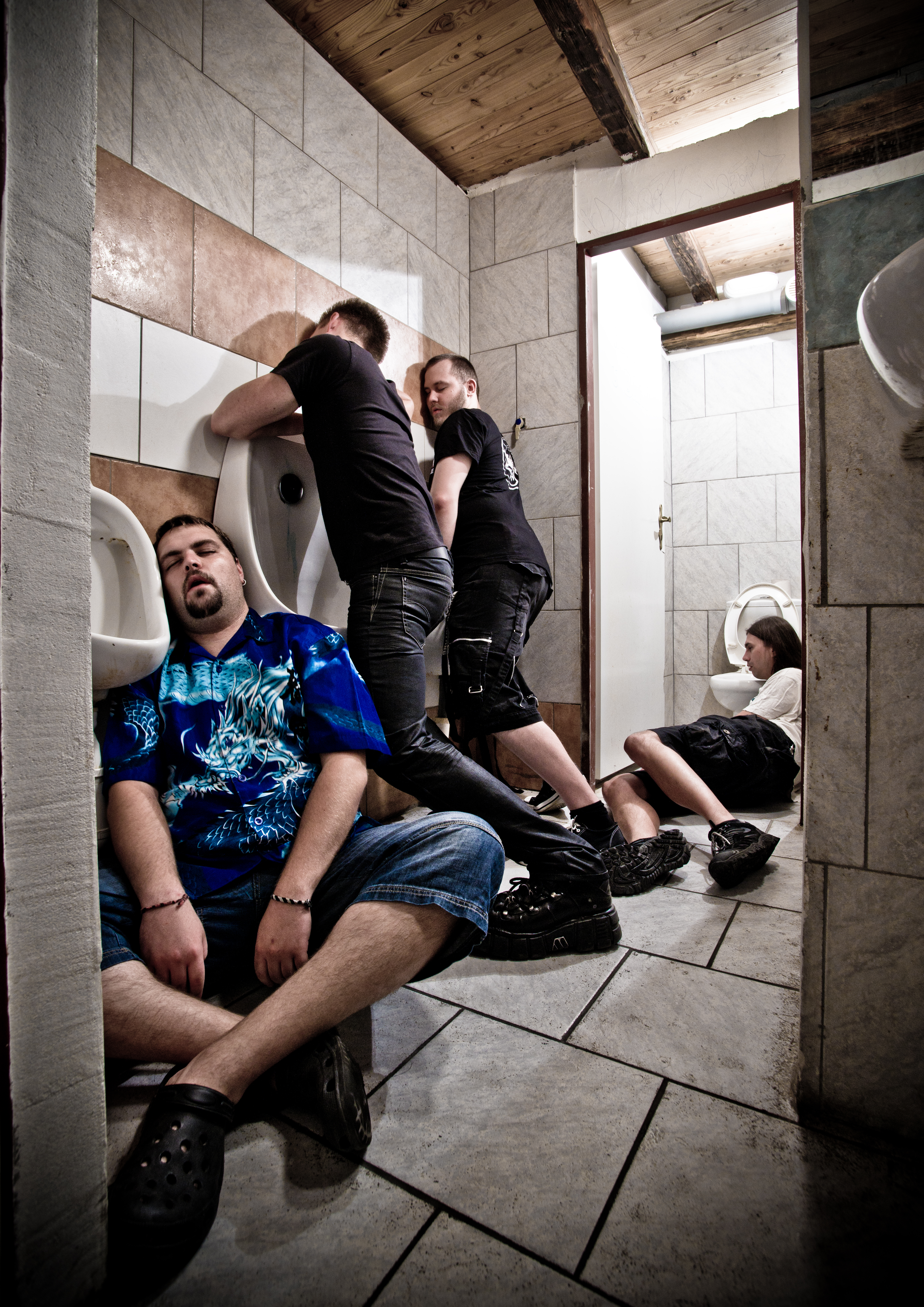 Morčata na útěku (band)